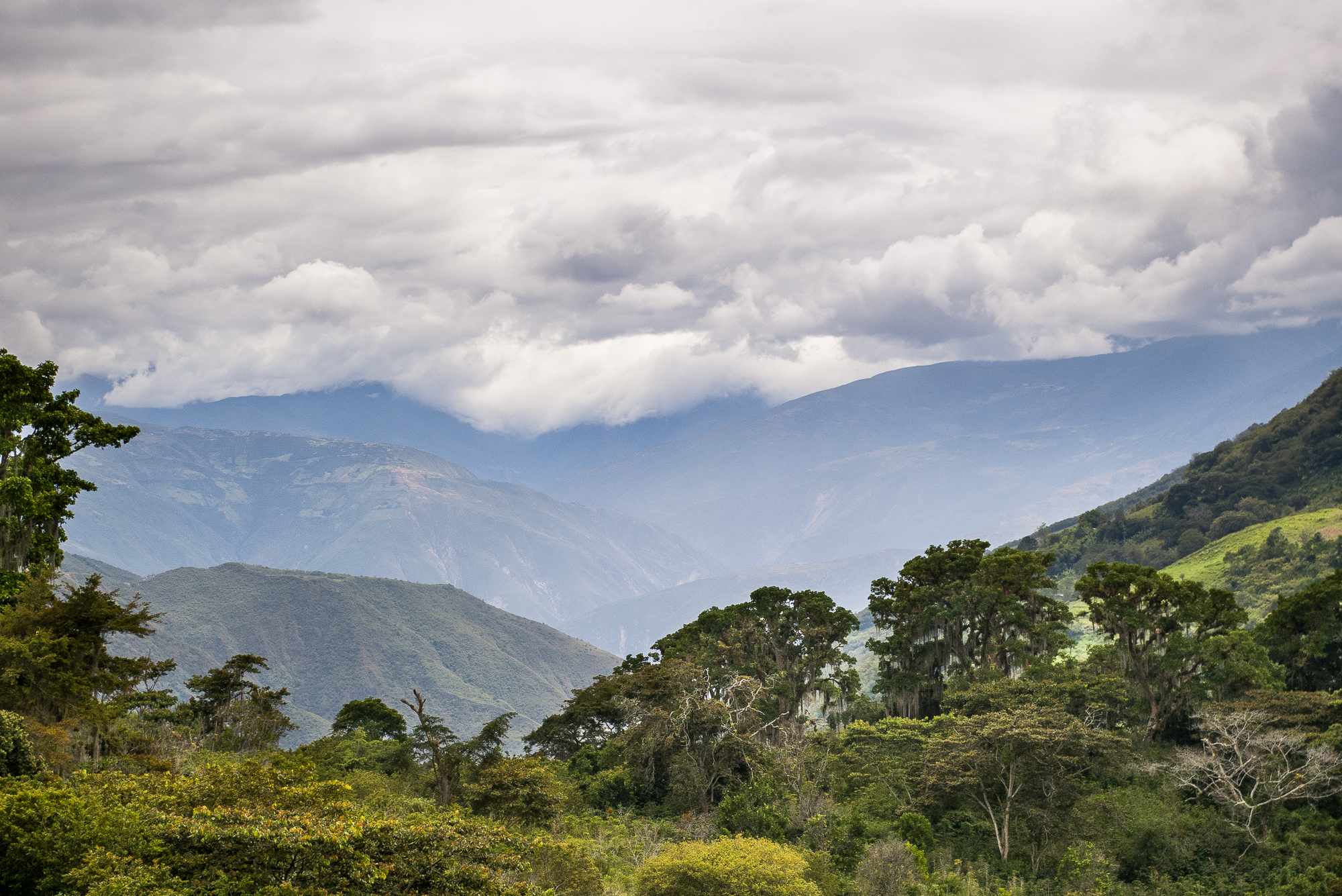 Coffee plantation with view of hills